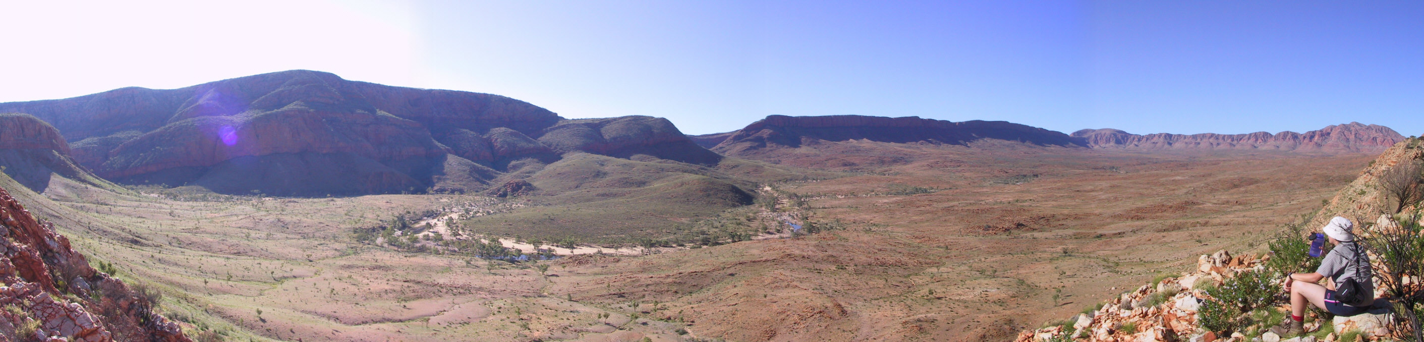 A panorama of Ormiston Pound, Northern Territory, Australia from Ormiston Gorge in the east (left) to Mount Giles in the west (right). The photos were taken in August 2004, with a Melbournian hiker in the foreground (right).